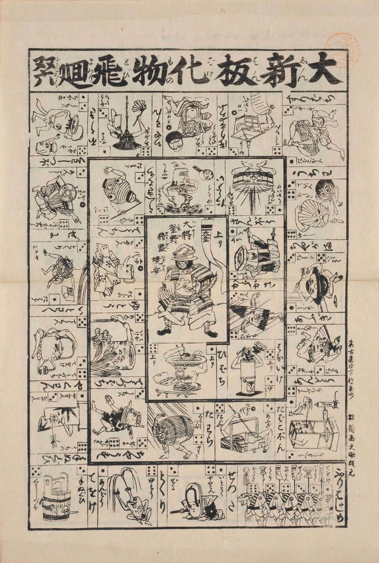 Sugoroku gameboard; Daishinpan Bakemono Tobimawari Sugoroku [Frolicking Goblins Sugoroku, New Edition] [大新板化物飛廻双六]; publisher: Izutsuya Bunsuke; date: c. 1850